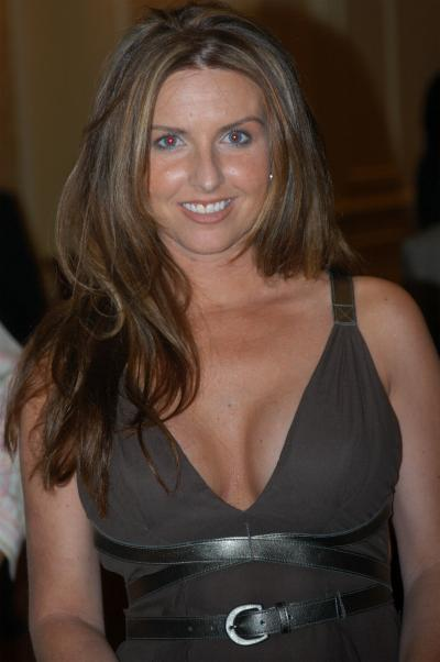 Wendi Knight, taken at the AVN Awards in Las Vegas on January 8, 2005